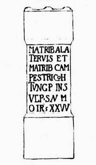 A drawing of the inscription on a stone Roman altar at Cramond near Edinburgh, Scotland (1794; database: AE 1977, 496 = RIB 2135).